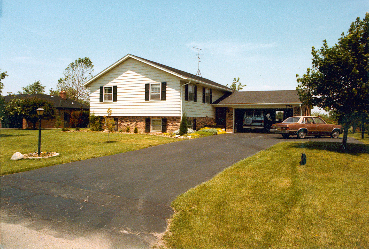 Here's my childhood home, the place where I grew up in Greenwood, Indiana, a suburb of Indianapolis. I lived here from age one through eighteen, and also several summers after I went off to college. My parents sold the house sometime in the early 1990s, I think. That's our cat Midnight in the front yard. The large stone in front of the lamp post is engraved with our family surname, and people sometimes asked if it was a grave marker. In actual fact, the stone was placed in the trunk of parents' car as a "wedding present." They left it with my grandfather when they took off on their honeymoon, and he was the one who had it engraved. I think I took this photo in the summer of 1983, but I suppose it could have been '84 or even '85.